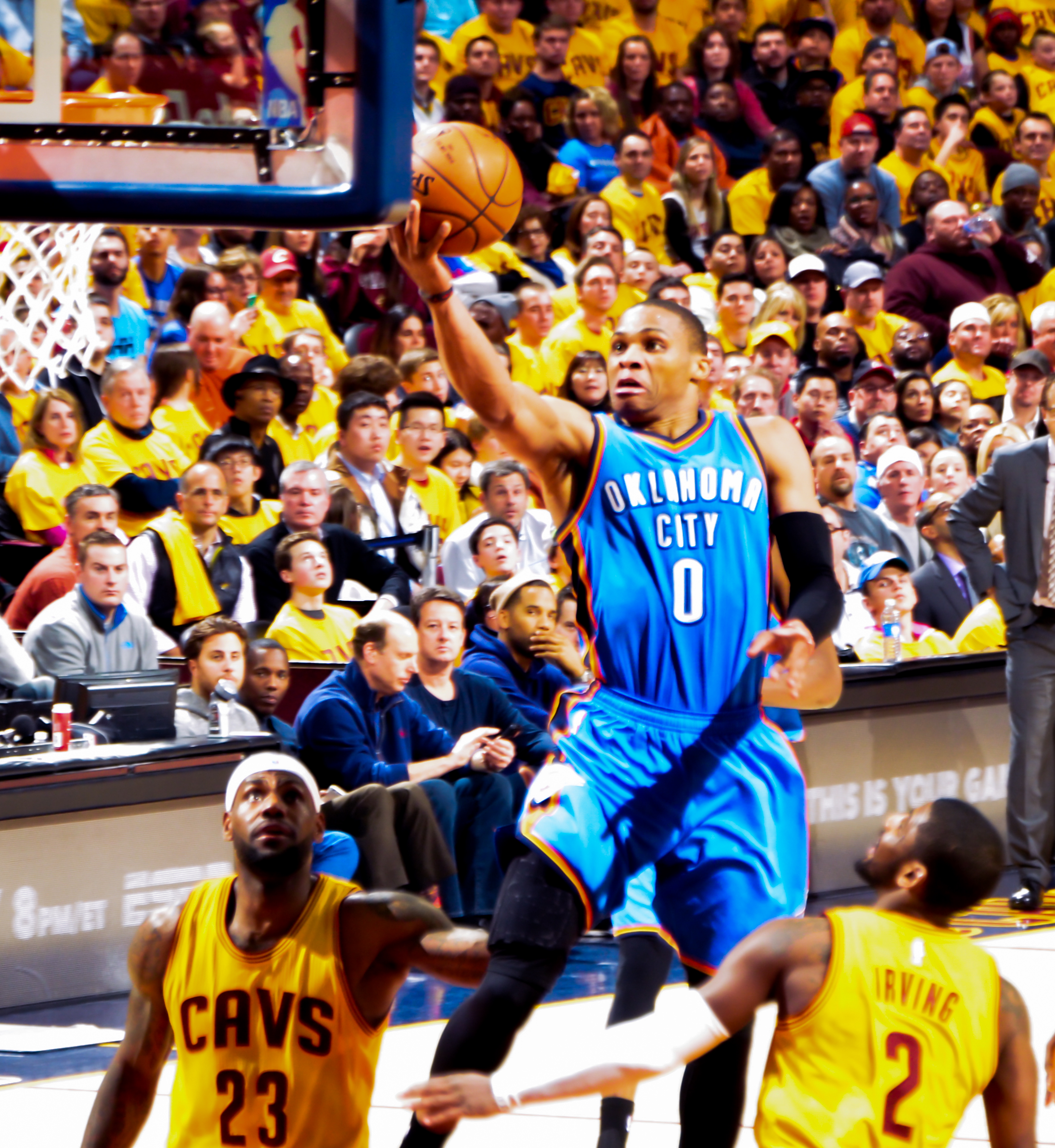 Russell Westbrook of Oklahoma City Thunder shooting against the Cleveland Cavaliers